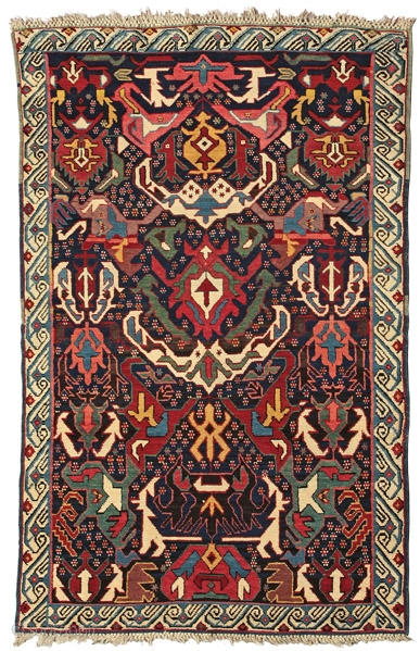 Bijo rugs, one of the famous compositions of Shirvan Carpet School, is named after its place made - Bijo village, nowadays in the administrative territory of Aghsu district of Azerbaijan